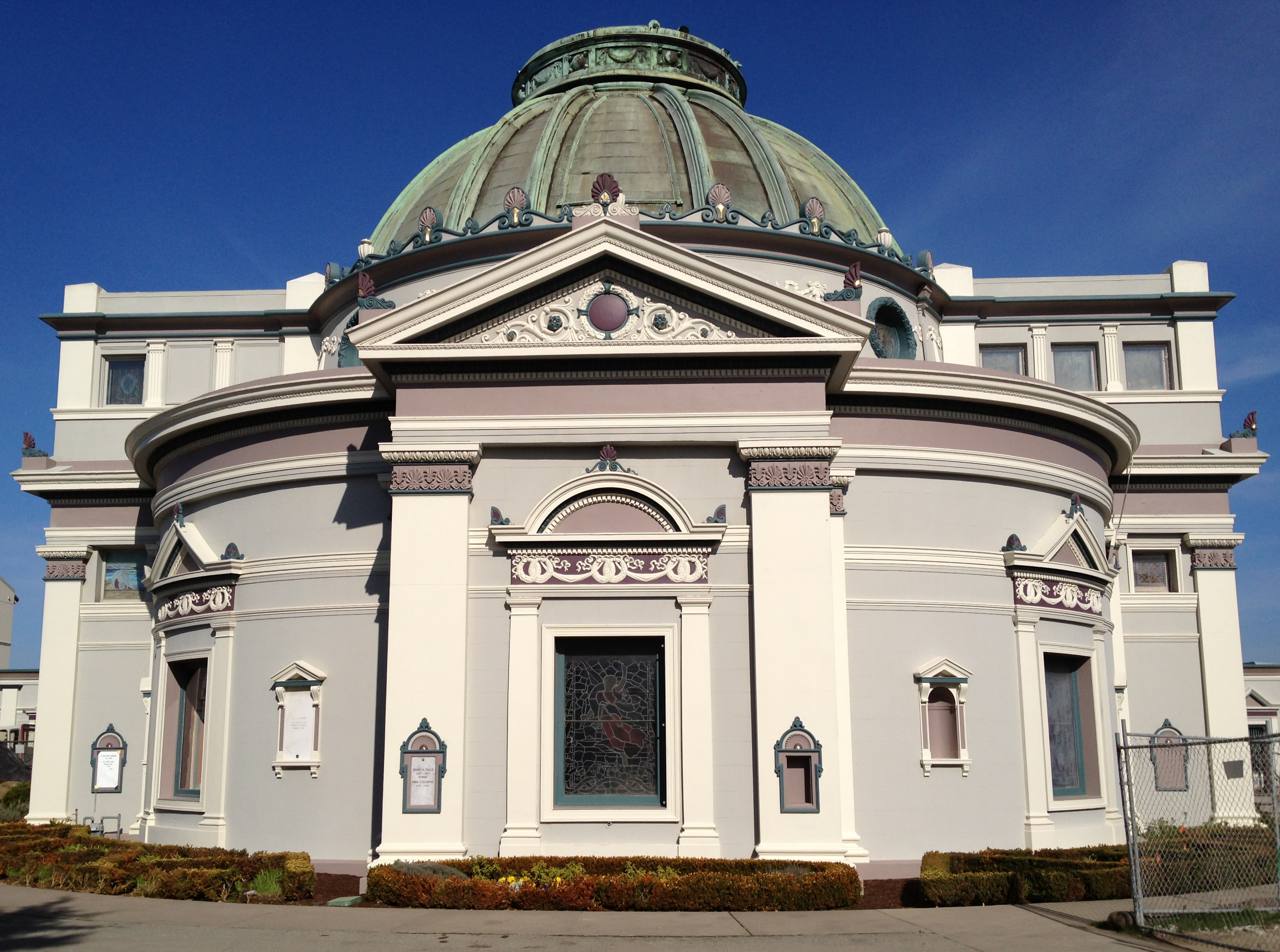 Neptune Society Columbarium of San Francisco, in February 2012.